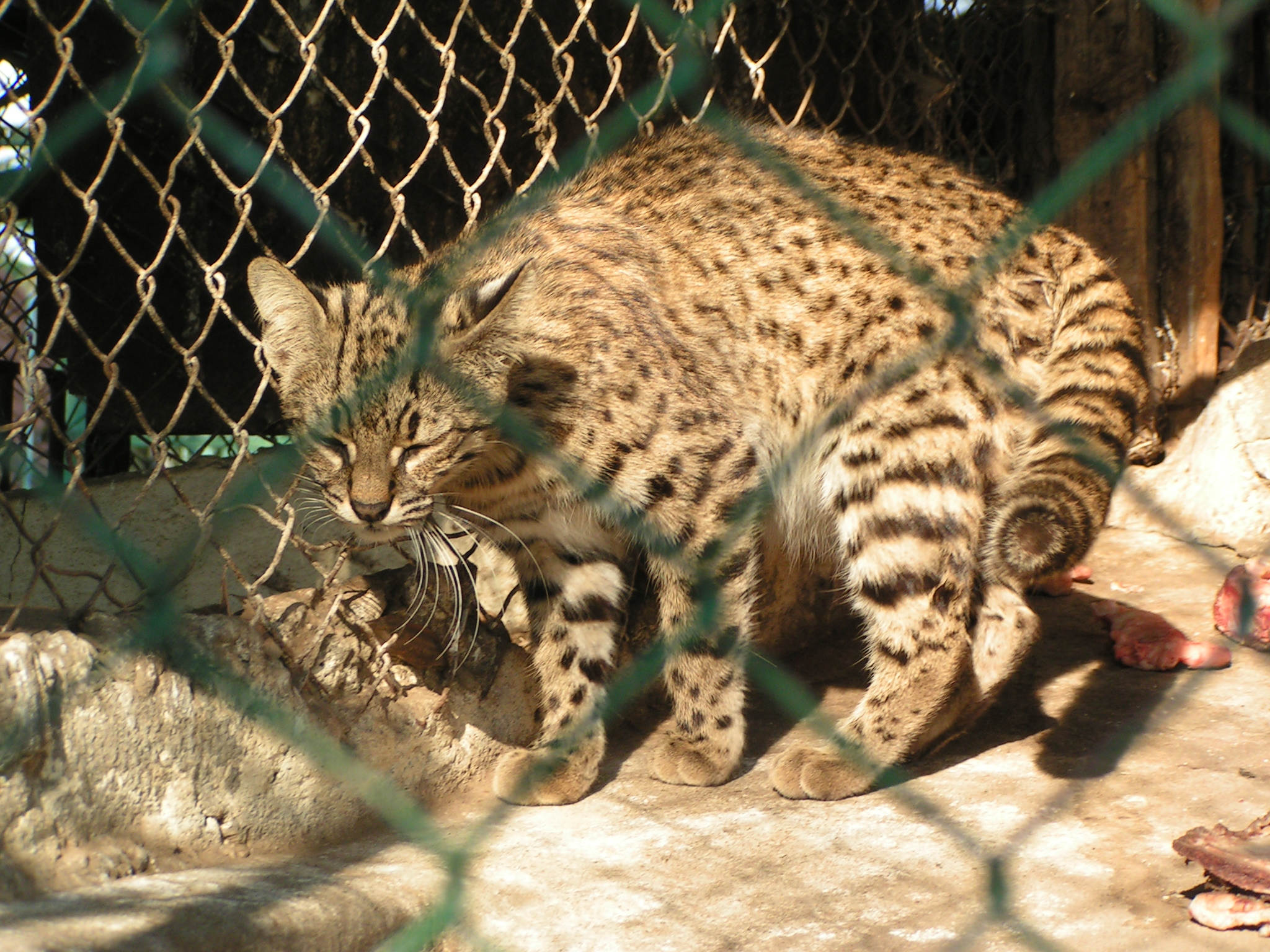 Gato montés americano (Oncifelis geoffroyi)